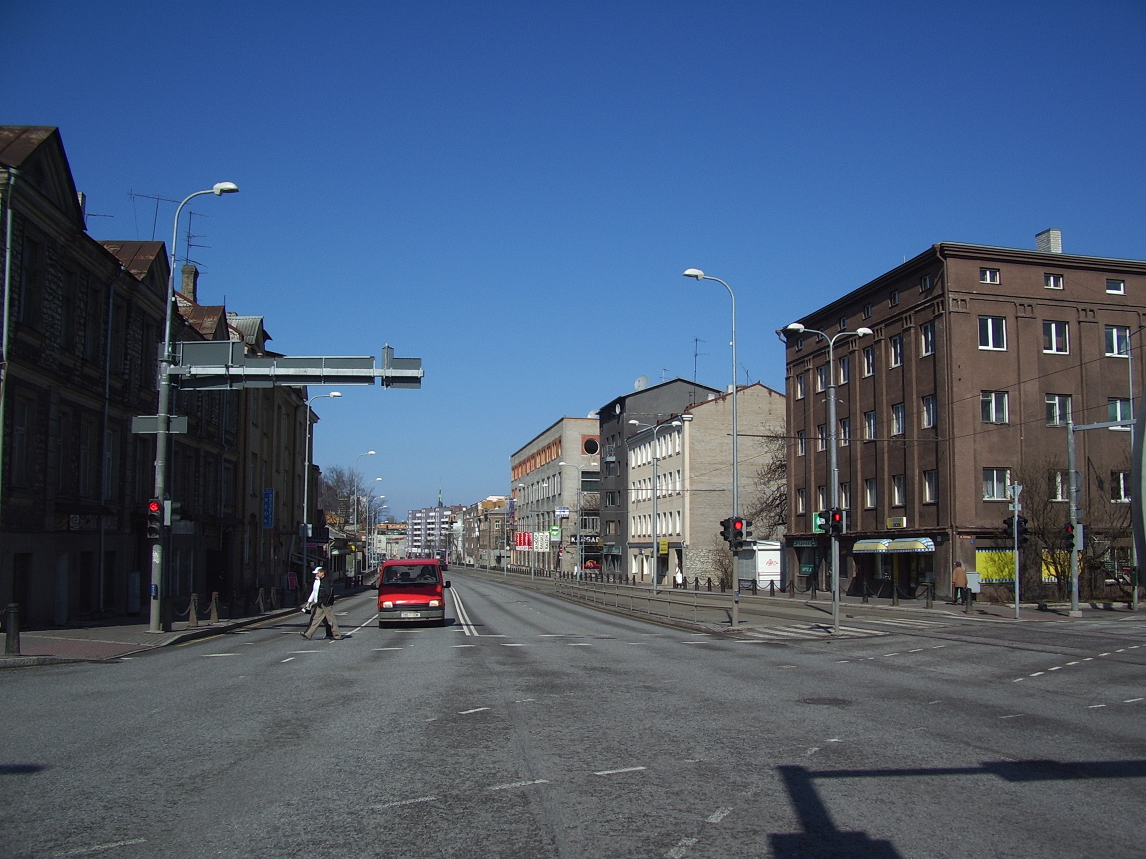 Tartu road in Tallinn city